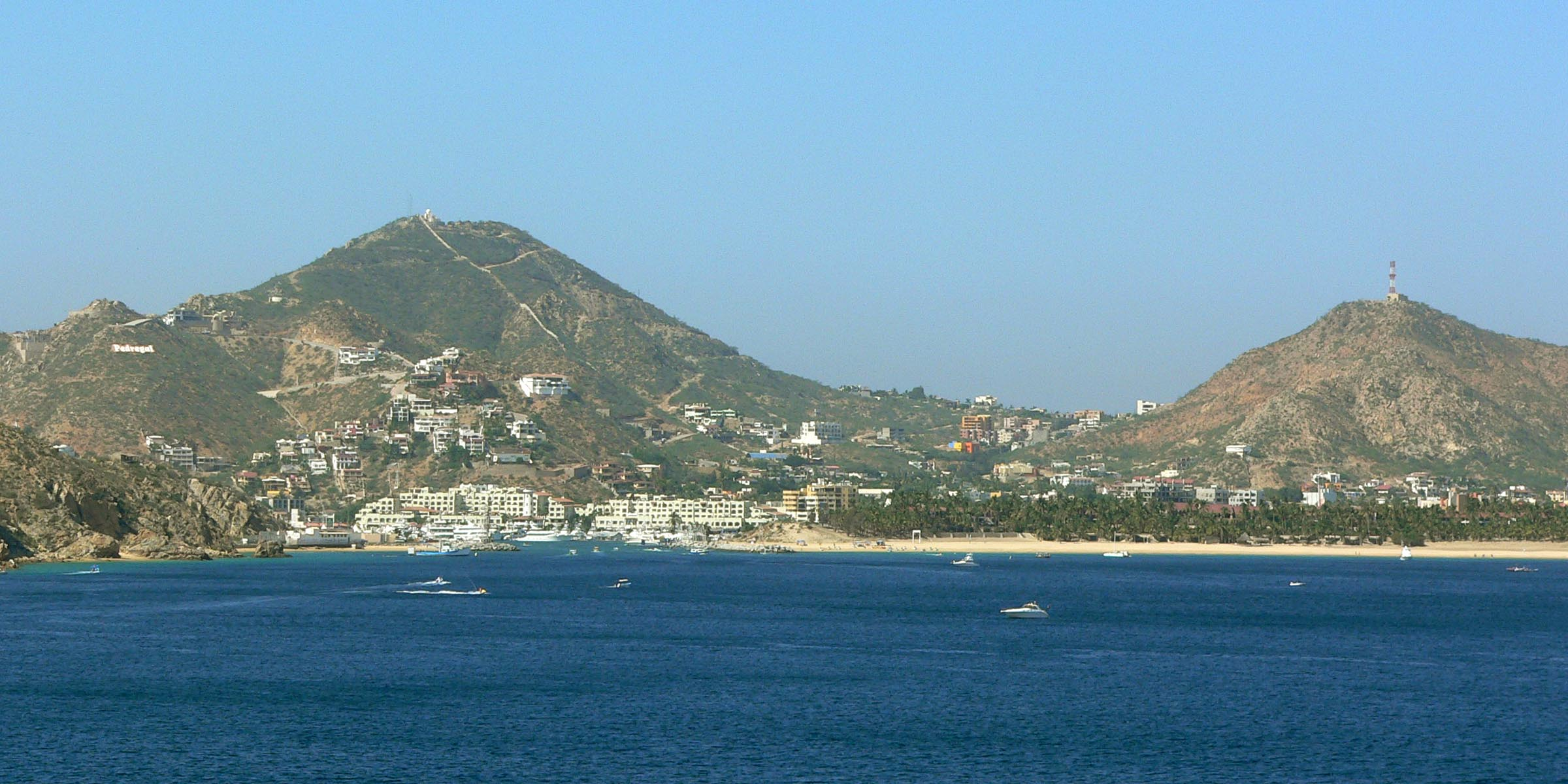 Photo of Cabo San Lucas, Mexico